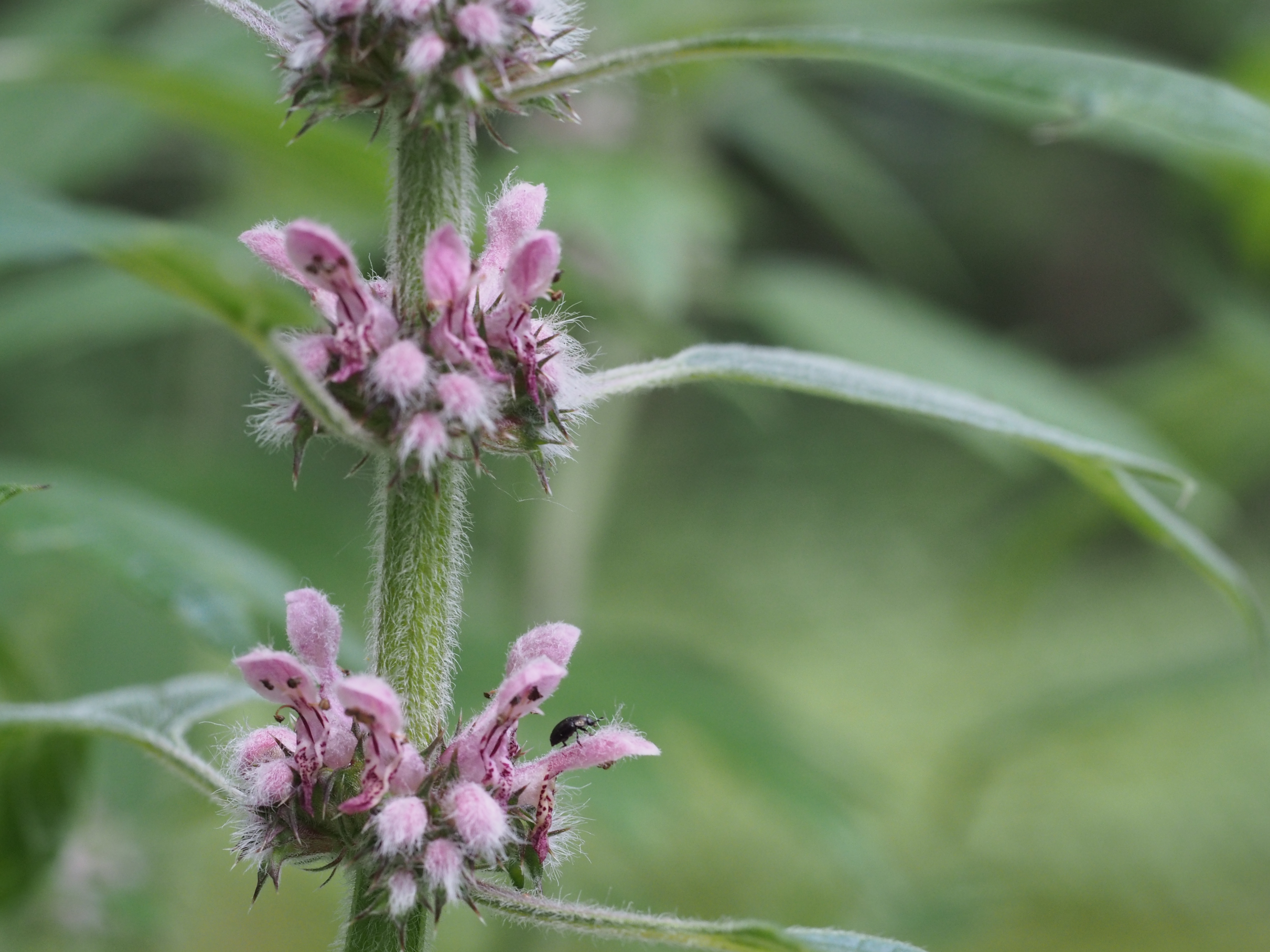 Leonurus cardiaca